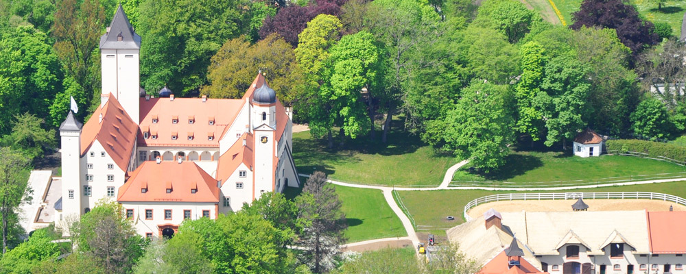 Gesamtansicht Schloss Hofhegnenberg